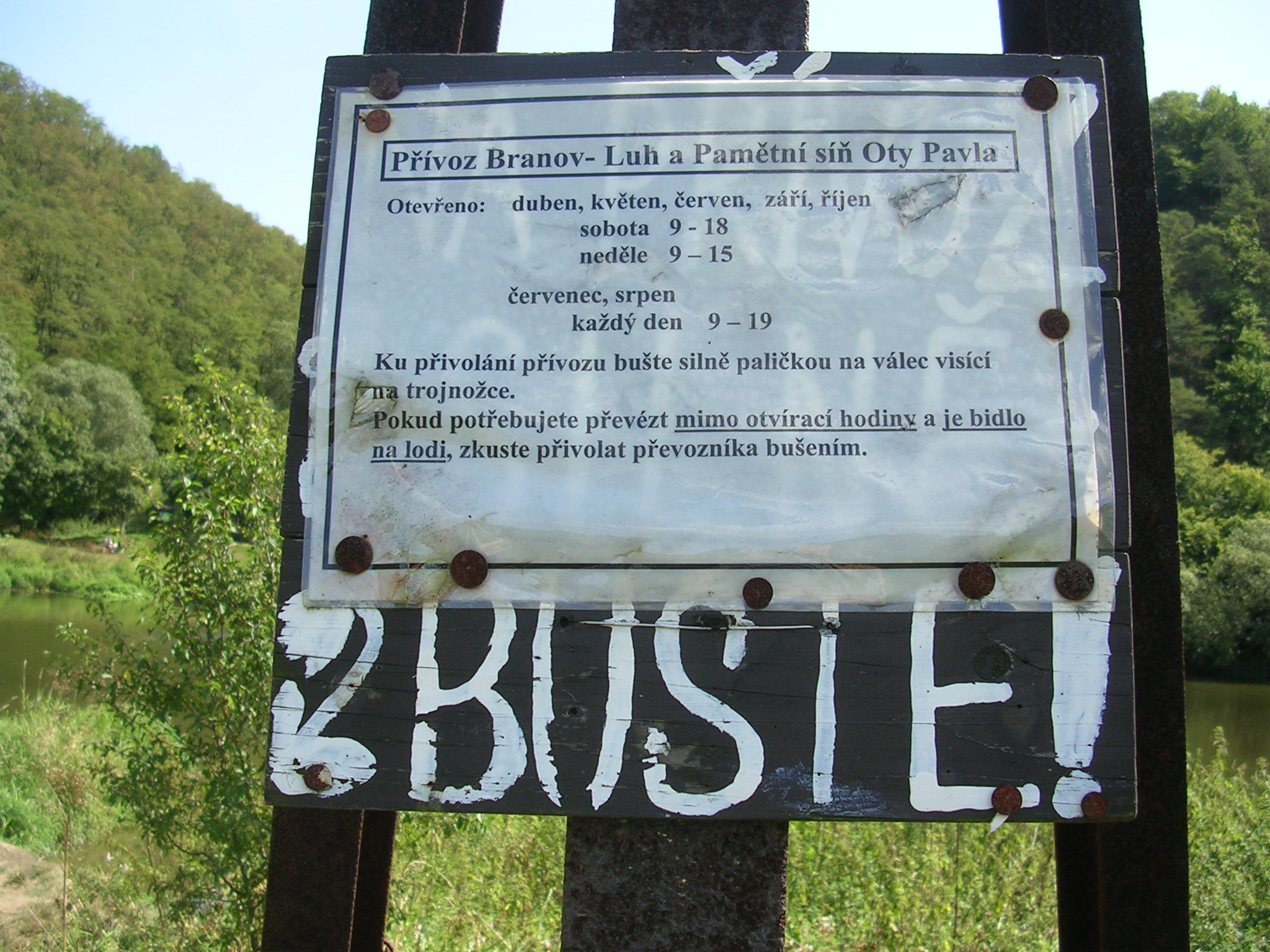 Nezabudice, Rakovník District, Central Bohemian Region, the Czech Republic. A schedule of the ferry to Branov-Luh.